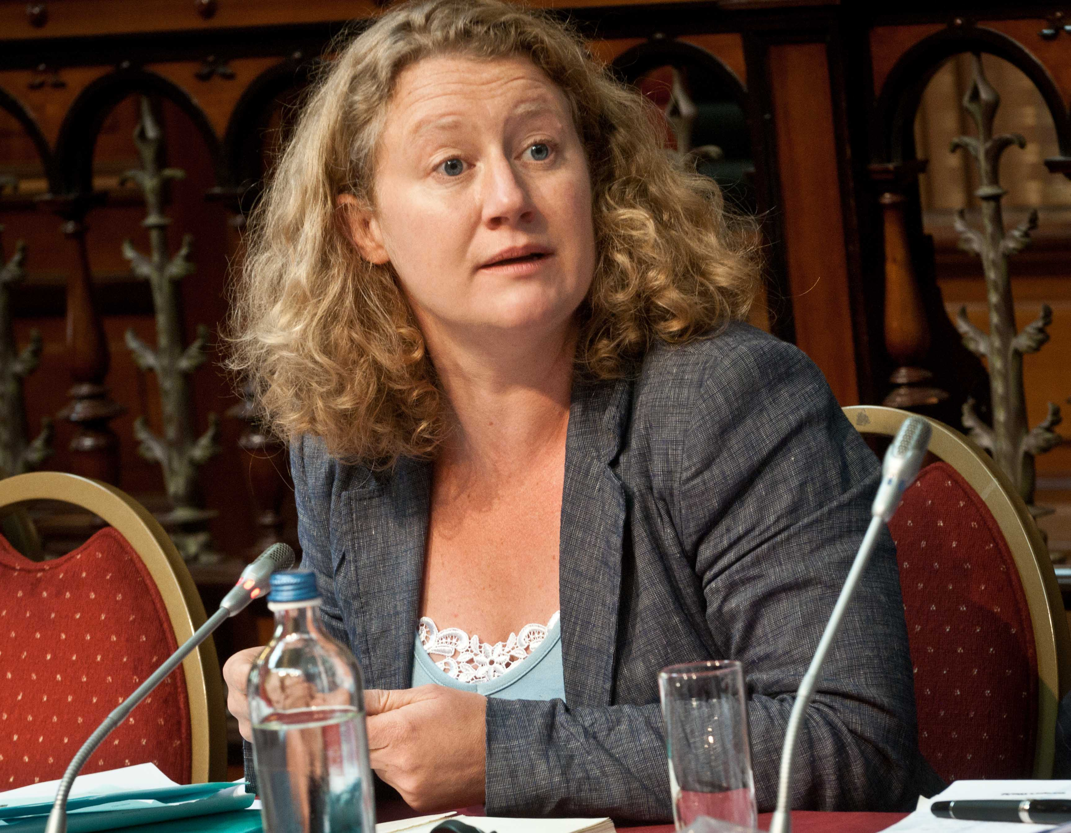 MEP, Group of the GreensEuropean Free Alliance, Vice Chair of the Delegation for Relations with South Africa